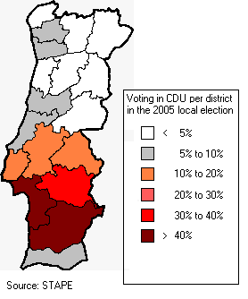 Electoral results per district of the Unitarian Democratic Coalition in the Portuguese local election of 2005.